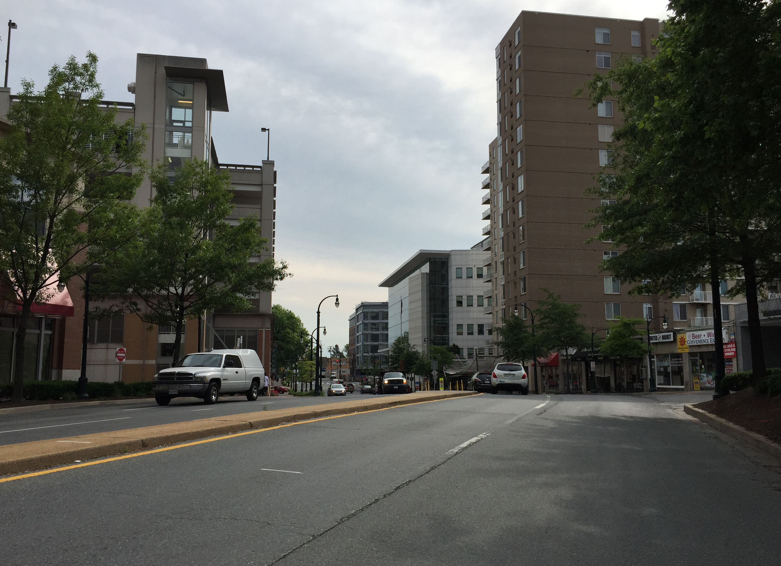 View east along Maryland State Route 594 (Wayne Avenue) at U.S. Route 29 (Georgia Avenue) in Silver Spring, Montgomery County, Maryland